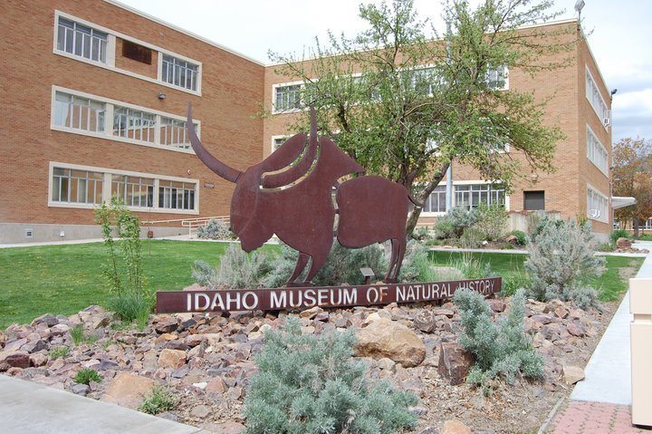 This is the entrance to the Idaho Museum of Natural History.